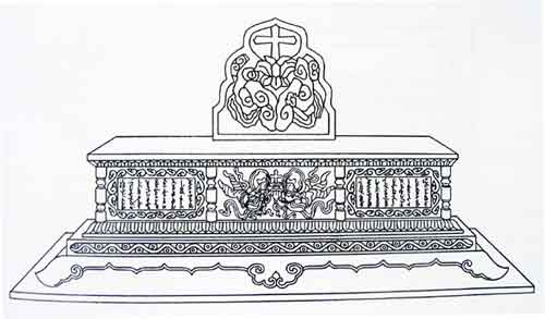 Diagram of a Nestorian altar-type grave monument. It has a flat top on which a small stone grave marker would once have been placed. Yüen dynasty (1271–1368).